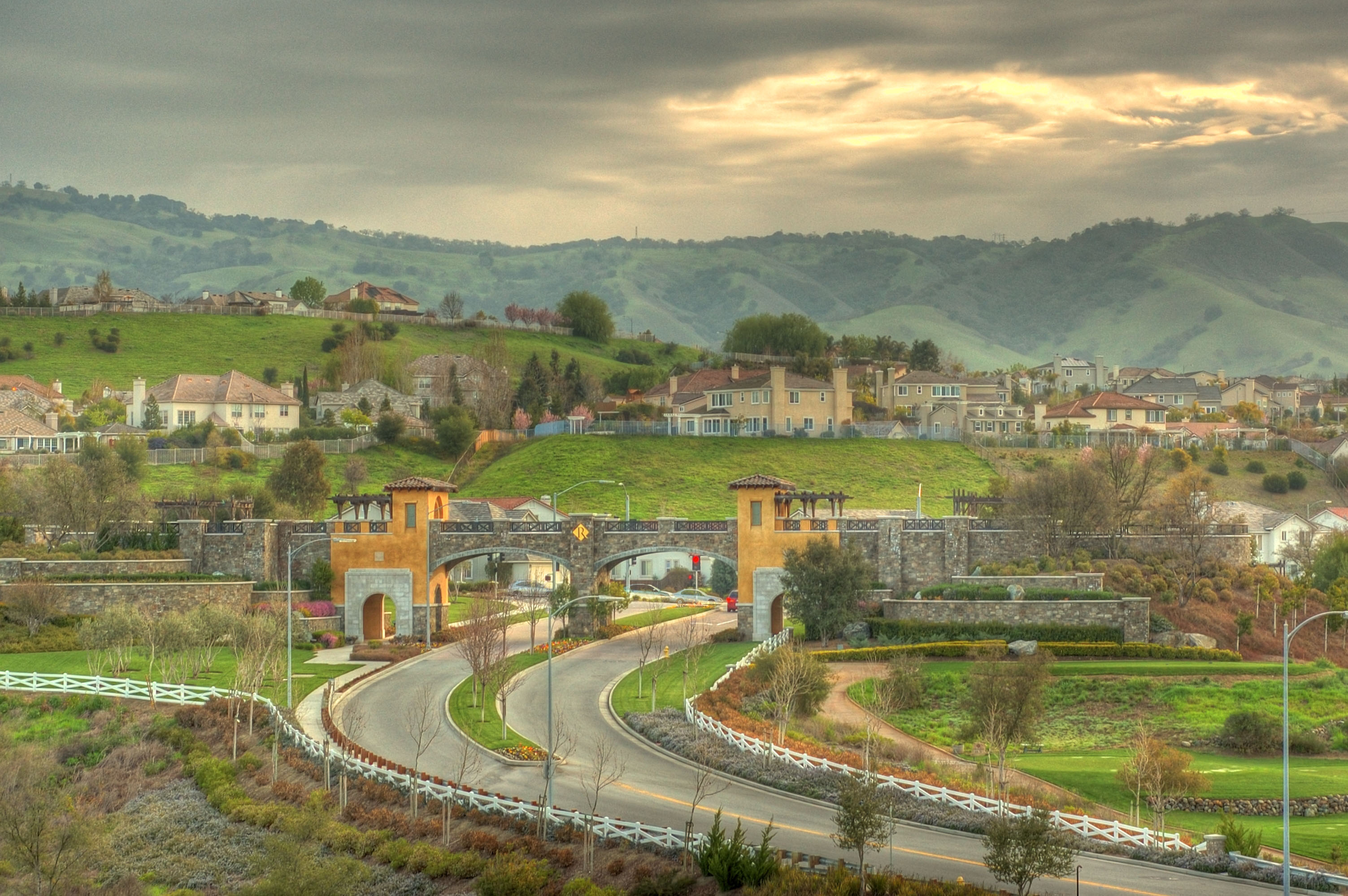 silver creek valley in san jose